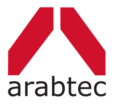 Arabtec Holding Logo